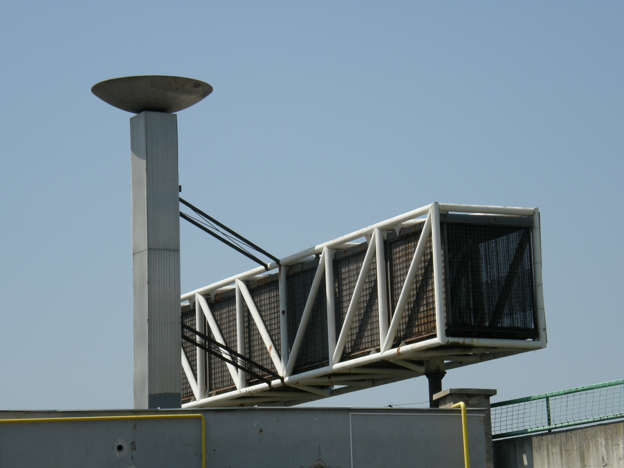 Torche, Sarajevo Olympic Stadium